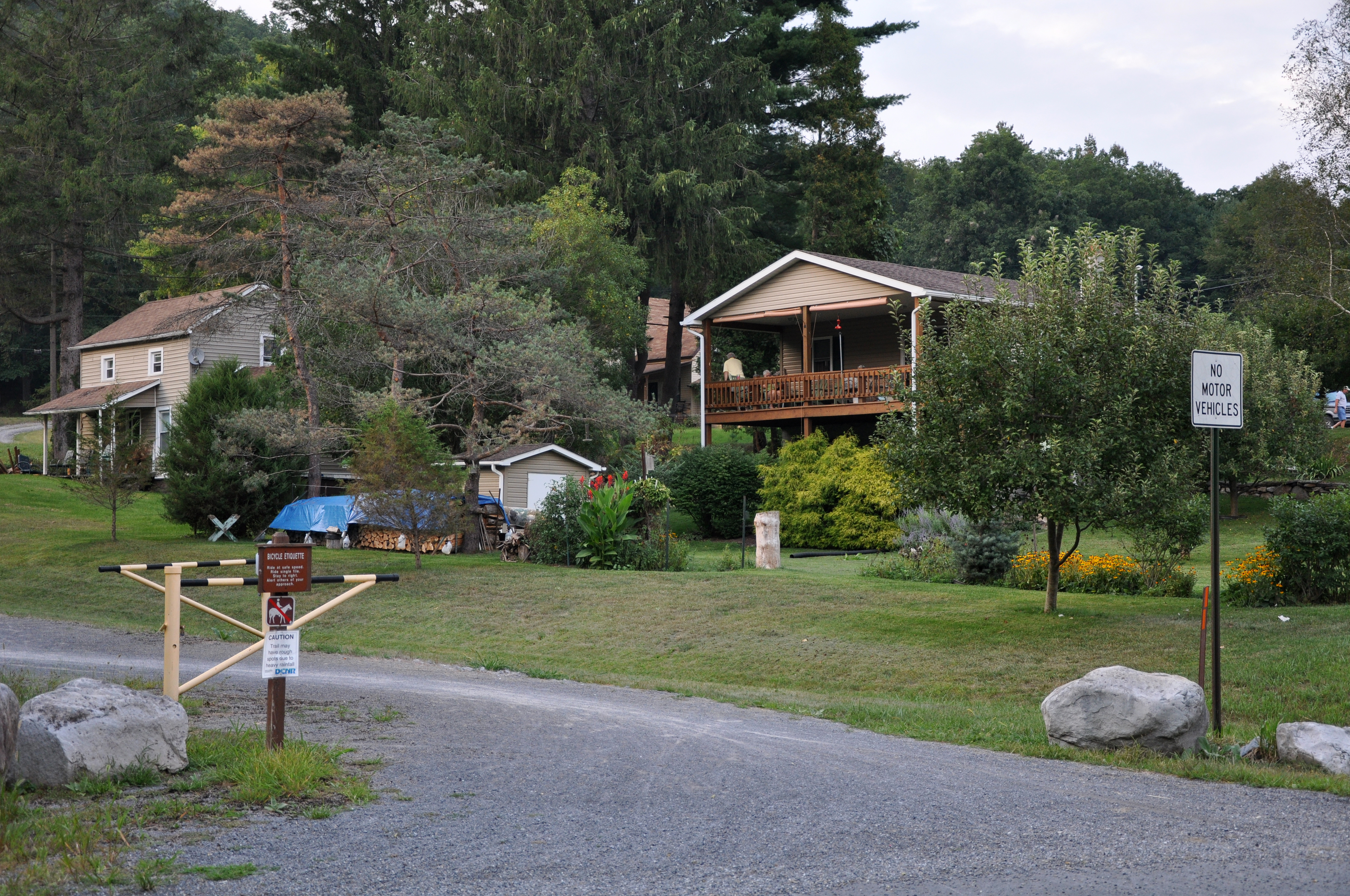 Pine Creek Rail Trail passing through Blackwell in the U.S. state of Pennsylvania